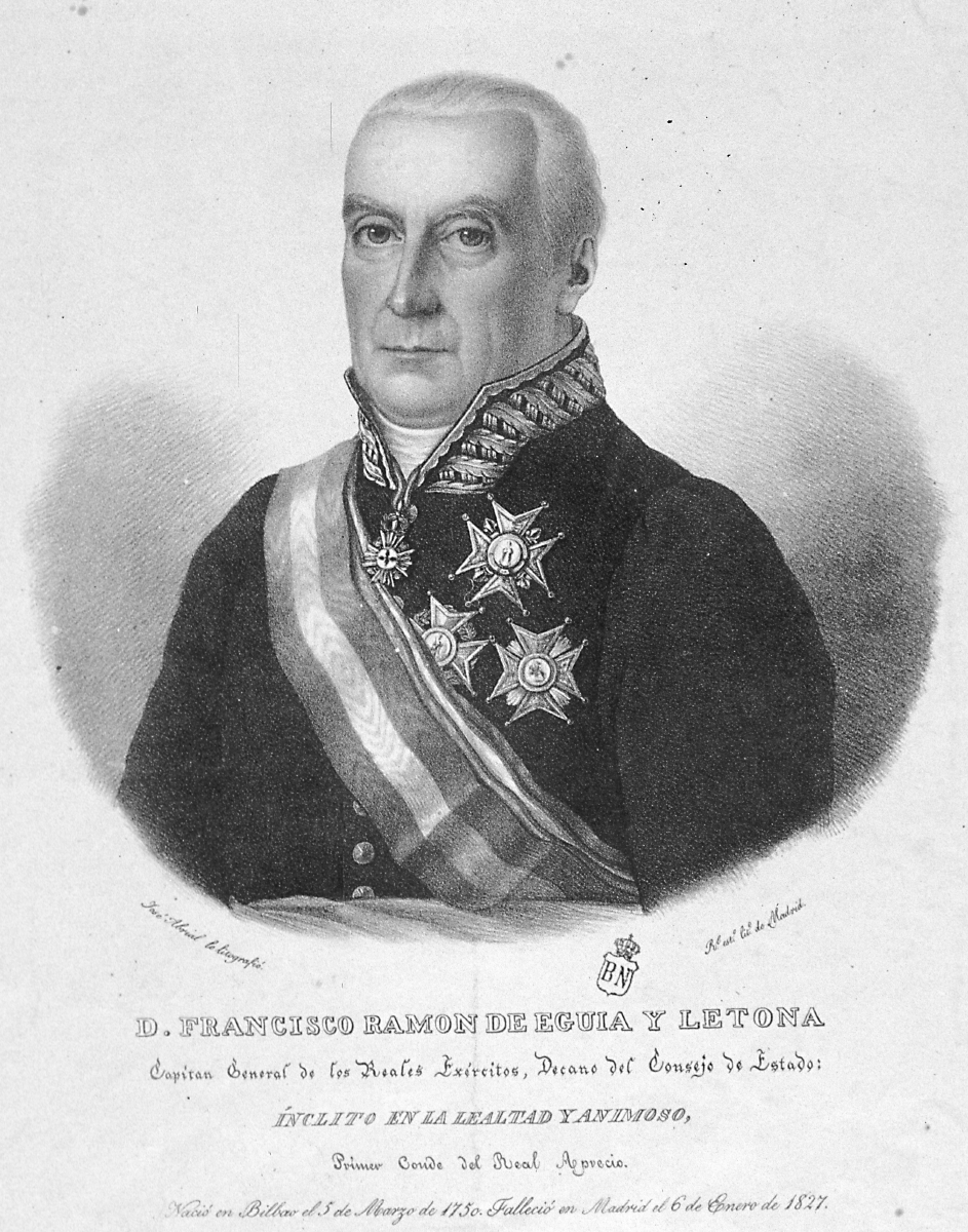 Portrait of Francisco Eguía y Letona (1750-1827)